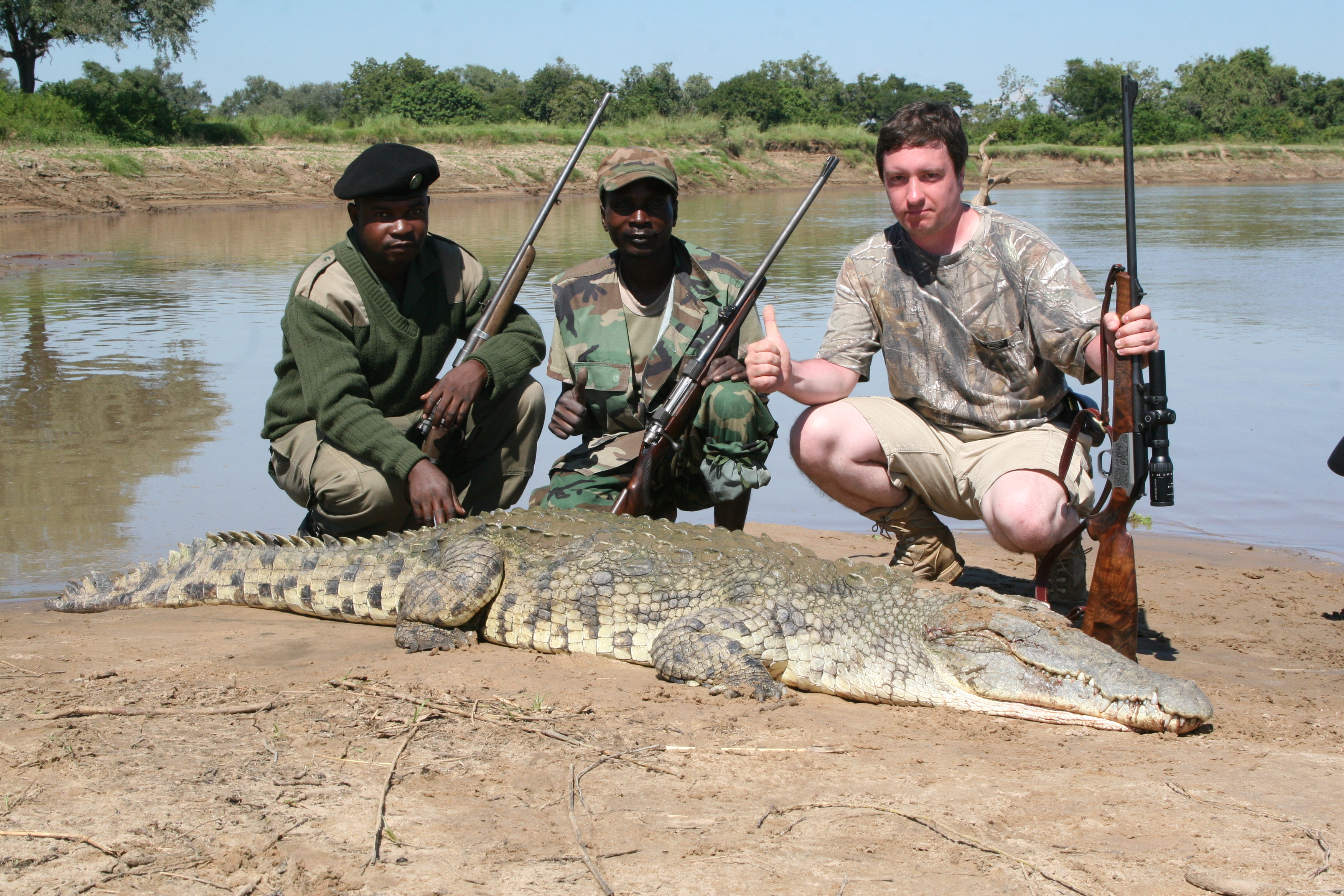 12' Nile Crocodyle Trophy, Zambia, Luangwa River